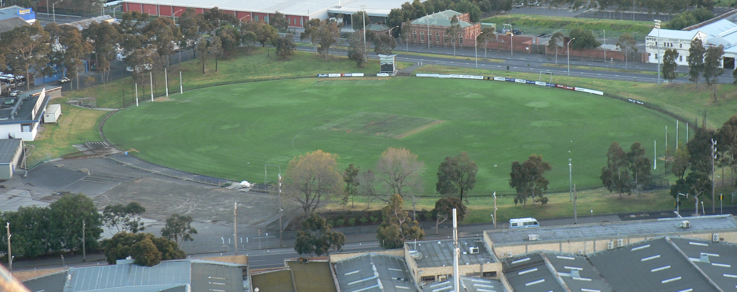 Arden Street Oval, North Melbourne from the air, following re-development